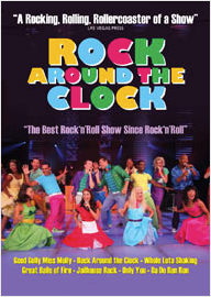 This is a poster for Rock Around the Clock, a show by theatre producer David King.